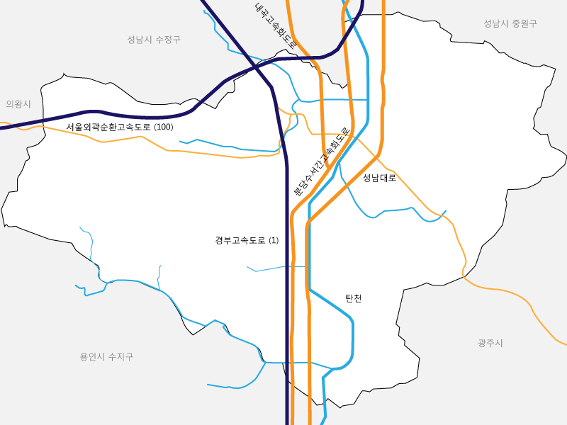 Network of Bundang, Seongnam